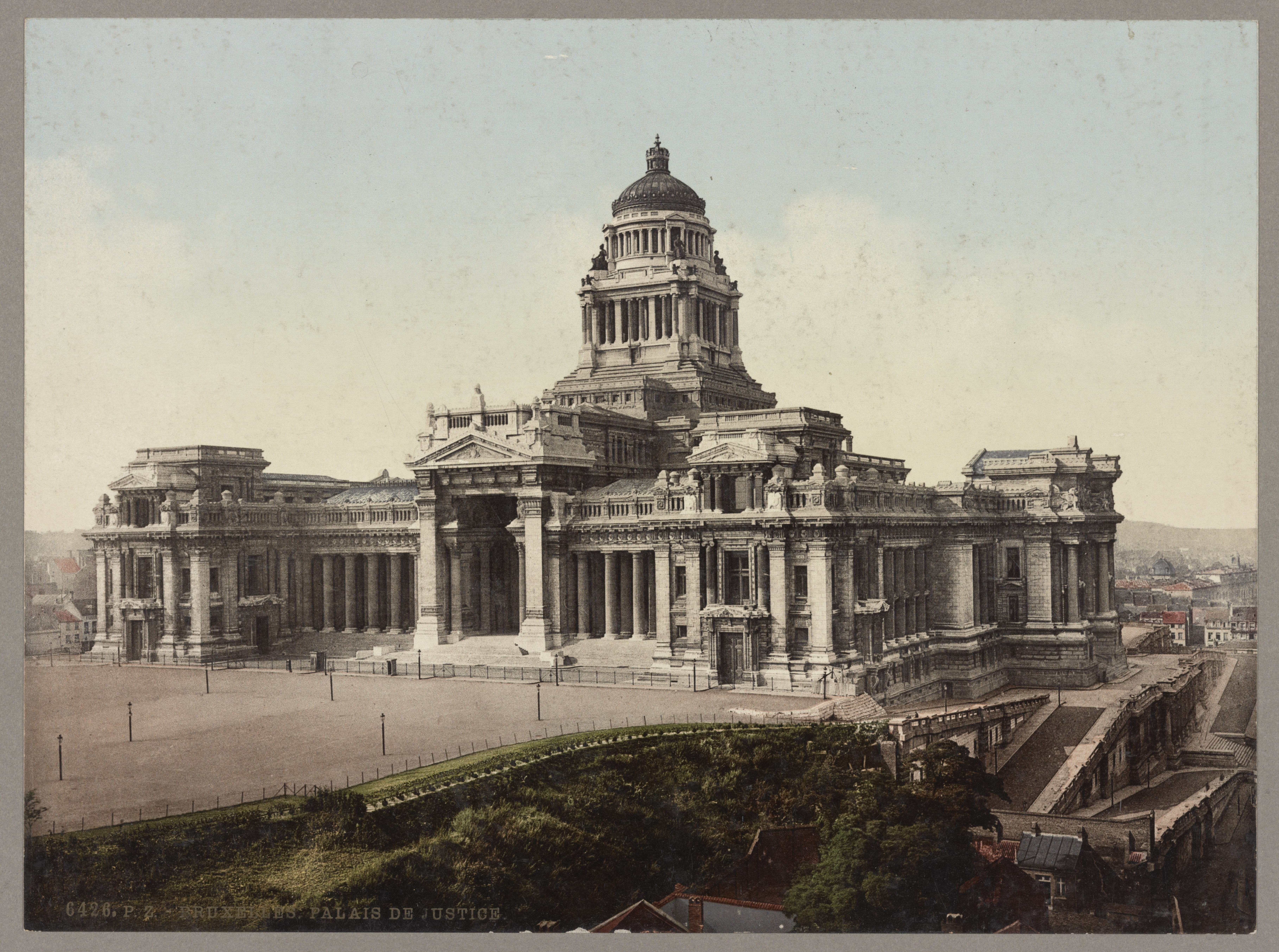 Title: Bruxelles. Palais de Justice Abstract/medium: 1 print : color photochrom ; sheet 17 x 23 cm.